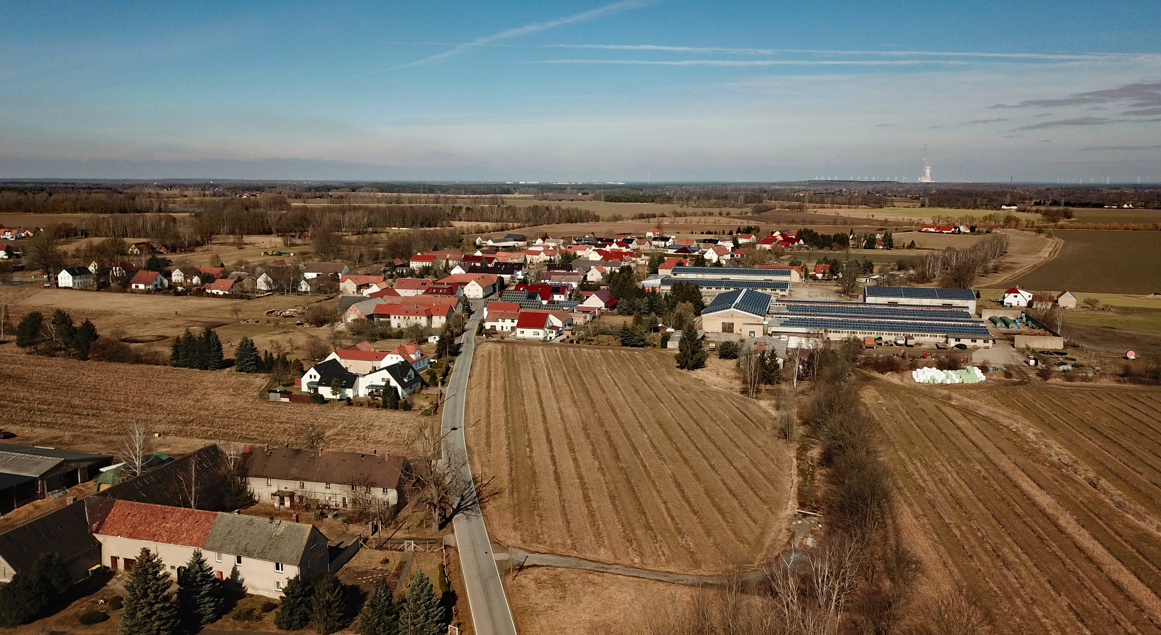 Commerau (Königswartha, Saxony, Germany) Hornjoserbsce: Powětrowy wobraz Komorowa pola Rakec